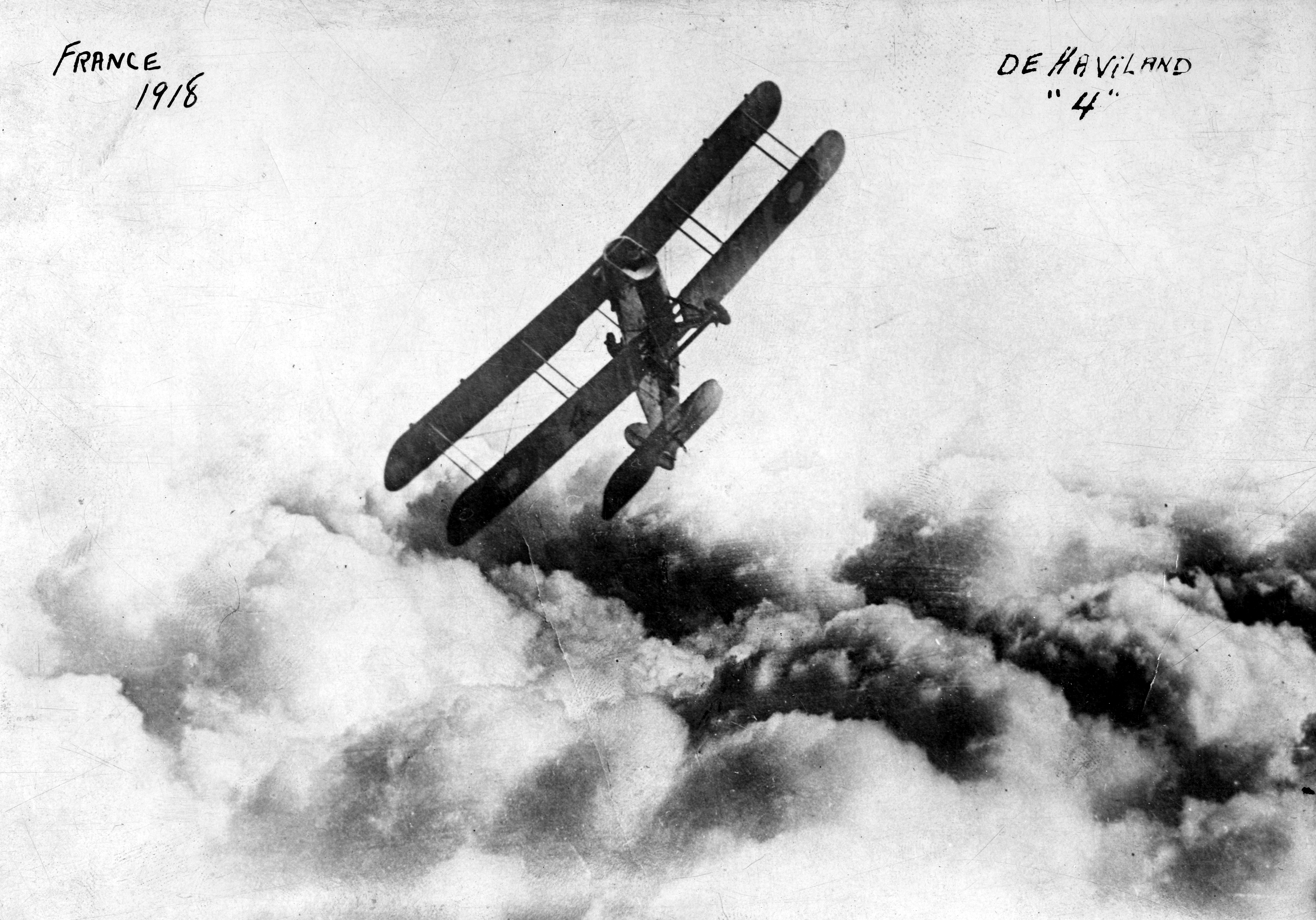 Biplane above the clouds. Handwritten on photograph front: "France, 1918, De Haviland '4.'" Handwritten on photograph back: "De Haviland - Liberty Motor, Dear Mum: Put this away for me. Maybe Adam helped make this engine. Ted."